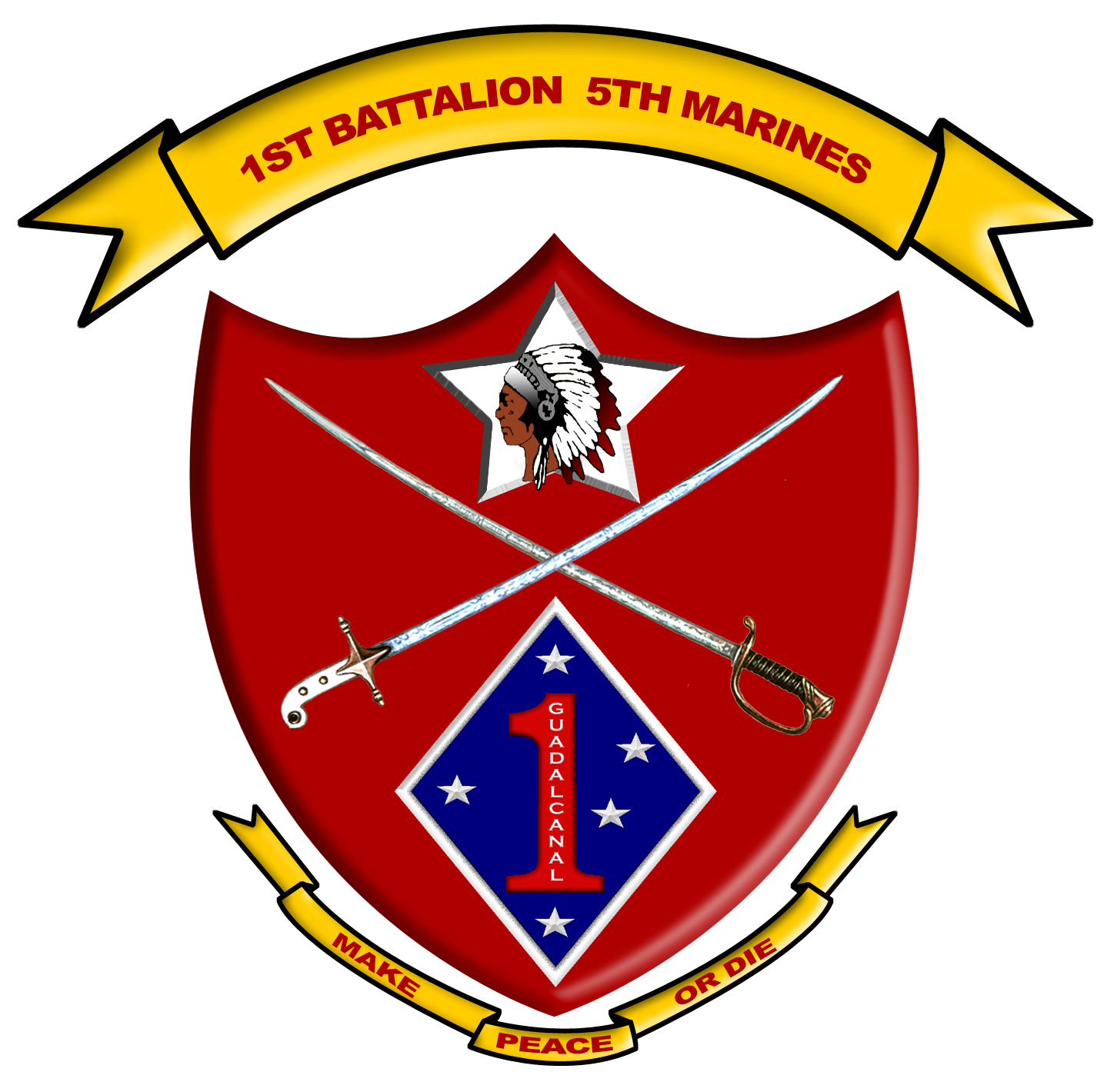 Insignia for 1st Battalion 5th Marines